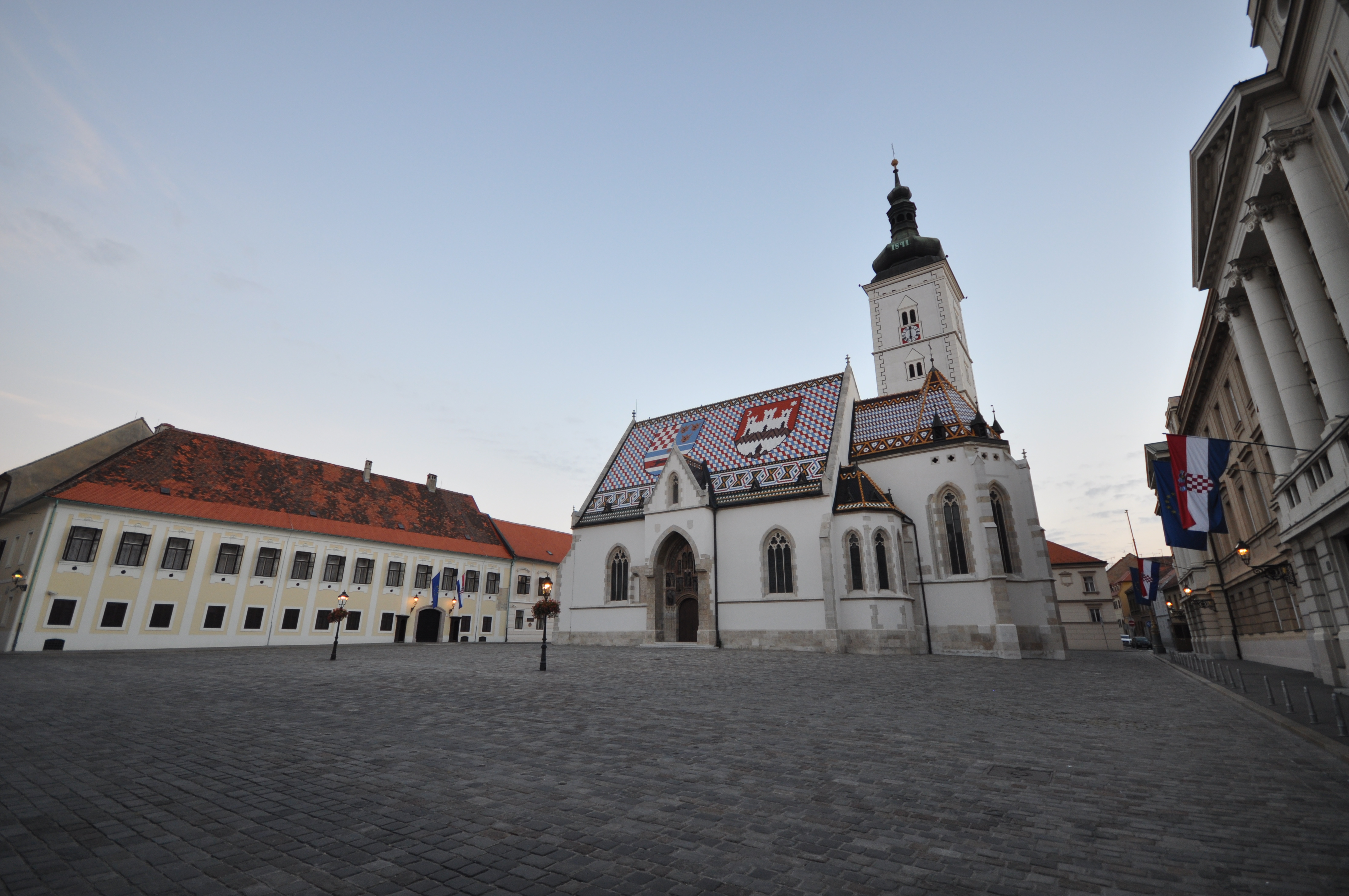 St. Mark's Square (Croatian: Trg svetog Marka) is a square located in the old part of Zagreb, Croatia. In the center of square is located St. Mark's Church. The square also sports important governmental buildings: Banski dvori (the seat of the Government of Croatia), Croatian Parliament (Croatian: Hrvatski sabor) and Constitutional Court of Croatia. On the corner of St. Mark's Square and the Street of Ćiril and Metod is the Old City Hall, where the Zagreb City Council held its sessions. In 2006 the square has undergone through renovation project. Since August 2005, the Government forbid any form of protests on St. Mark's square which caused many controversies in Croatian's "civil society". This ban was partially lifted in 2012. The square is also the site of the inaugurations of Croatia's presidents. Franjo Tuđman took his oath as President of the Republic in 1992 and 1997, Stjepan Mesić in 2000 and 2005 and Ivo Josipović in 2010